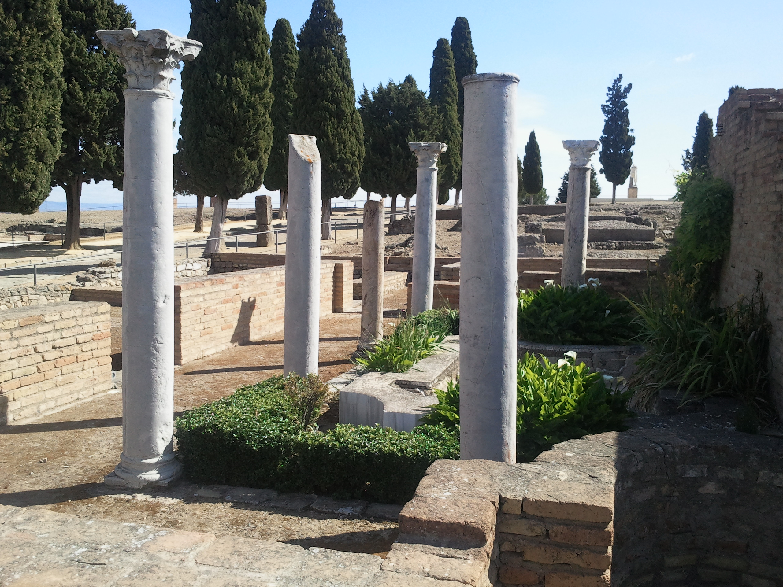 A roman house, in Itálica archeological site, Santiponce, Andalucia, Spain